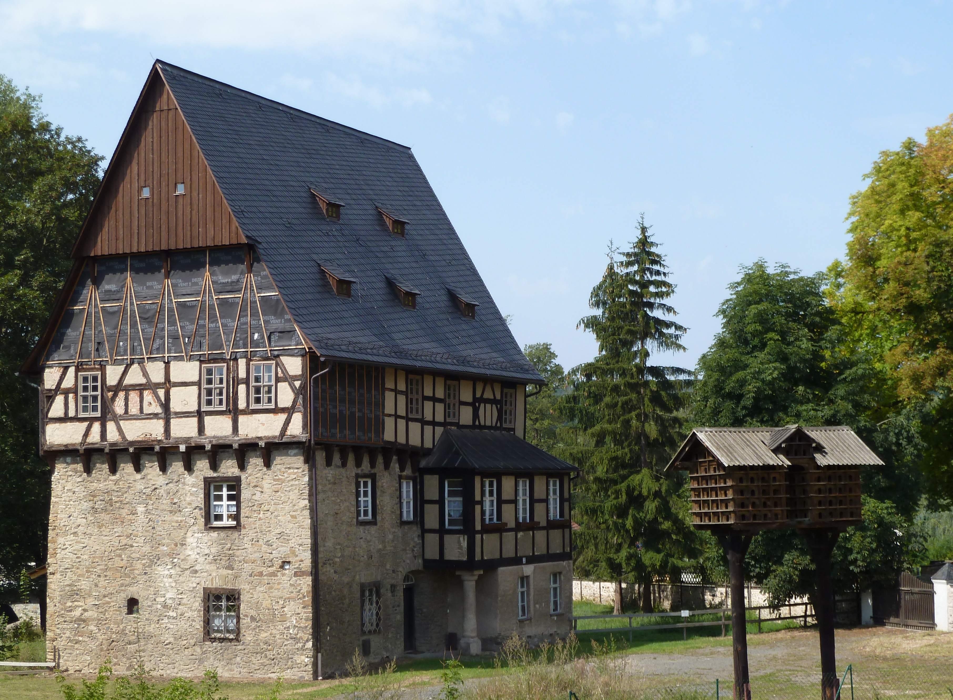 The Feudal Estate of Kürbitz in summer of 2011